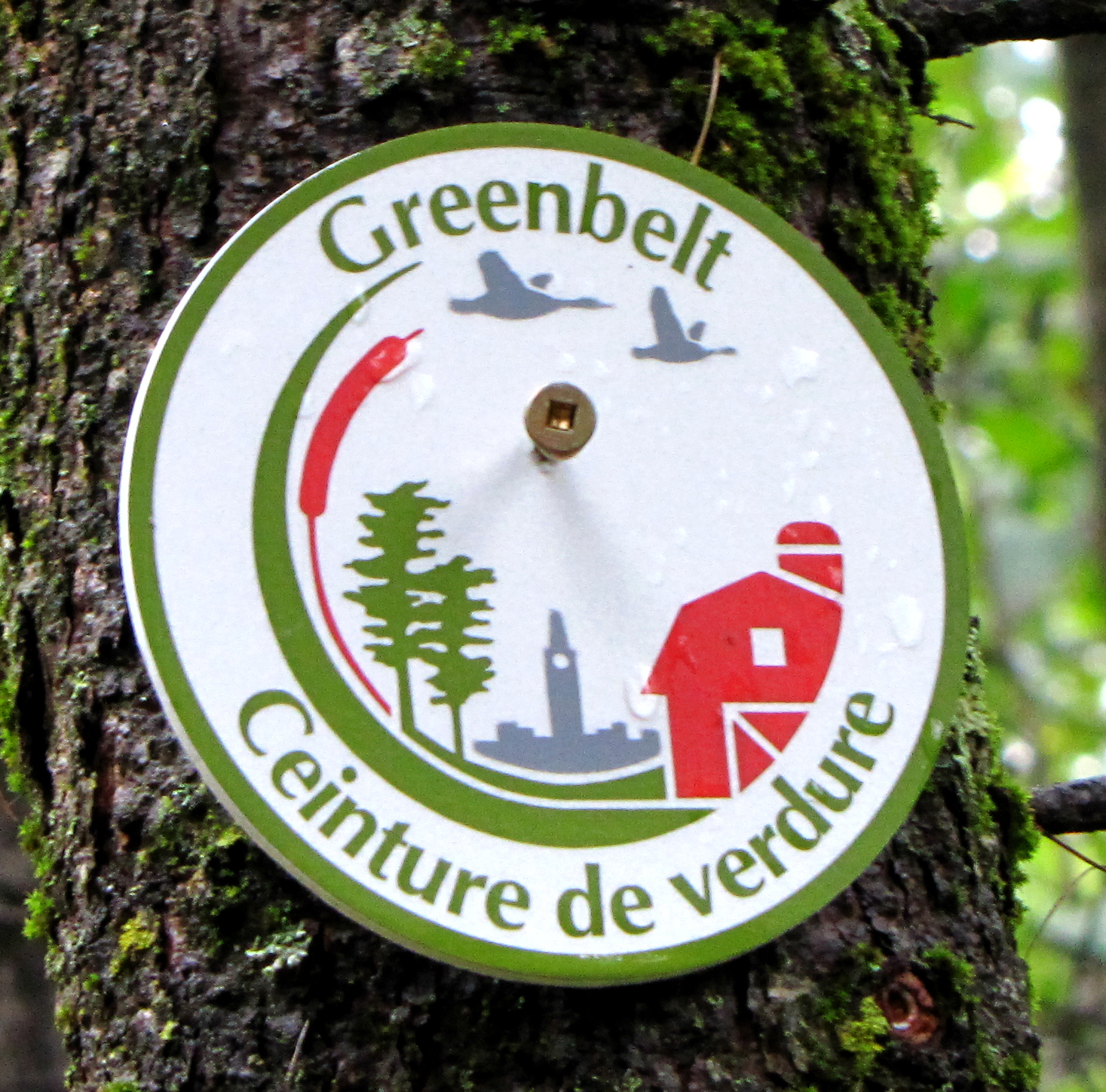 Greenbelt trail marker, Ottawa, Ontario, Canada